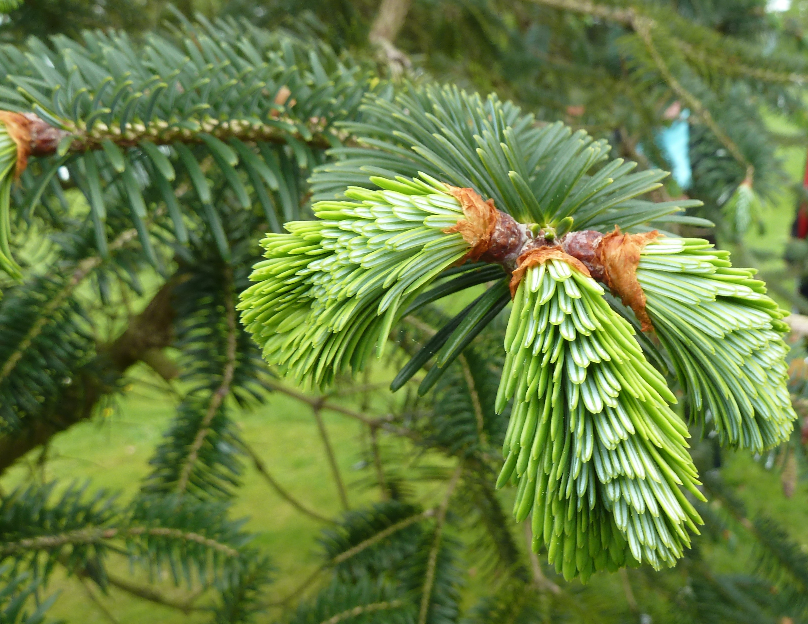 Himalayan Fir Abies spectabilis, young growth at Bowood Arboretum, England